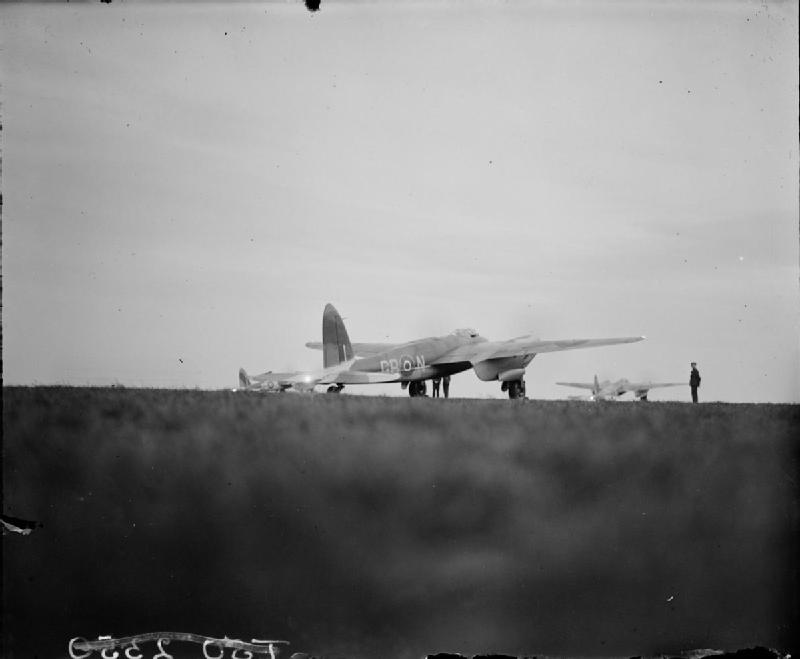 Royal Air Force Bomber Command, 1942-1945. De Havilland Mosquito B Mark IVs of No. 105 Squadron RAF taxy to the main runway at Marham, Norfolk, for a night raid on Berlin, Germany.